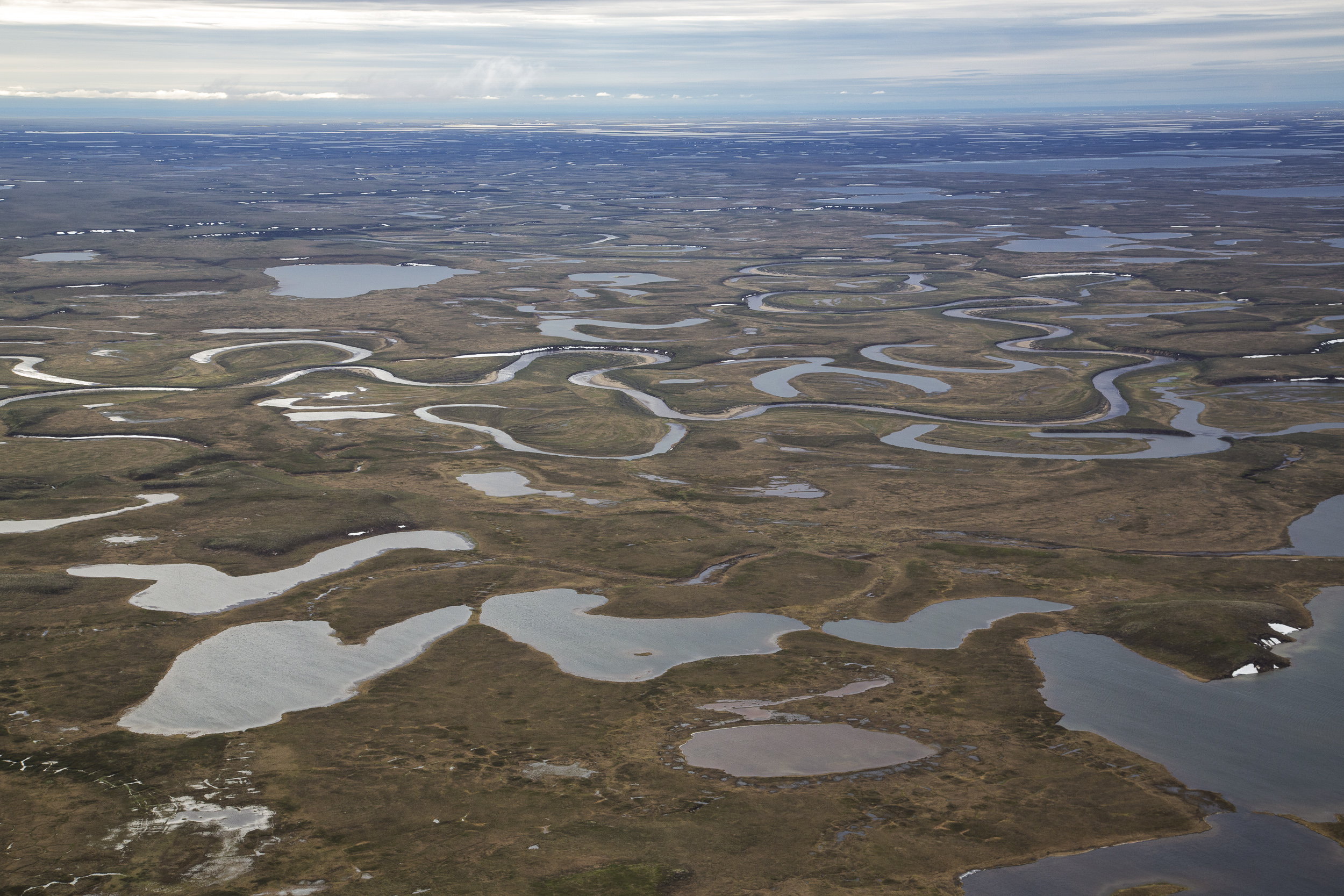 Where do you work and how does your job fulfill the BLM mission? My office manages the National Petroleum Reserve in Alaska (aka NPR-A), which includes 23 million acres of Alaska’s western Arctic. I coordinate BLM’s NPR-A Subsistence Advisory Panel to ensure oil and gas lessees and permittees consult directly with potentially affected communities. And I regularly meet with residents and tribal governments in the NPR-A about land management issues. What previous experience/education prepared you for your job? For my doctoral research at University of Alaska Fairbanks, I traveled the western arctic coast by sailing a canoe over the course of two seasons and participated in community activities such as hunting and fishing trips. This field work was a fantastic way to meet people and learn about the land and the history of the Arctic North Slope. I was also a PhD fellow in an interdisciplinary program with great attention to climate change in Alaska and sustainable land management. What is the best thing about your job? To me, the greatest thing about Alaska is the state’s powerful and rich array of Alaska Natives living a rural lifestyle, hunting and fishing in their traditional homelands. Those residents generously share that experience with others who respect it. Photo by Bob Wick, BLM